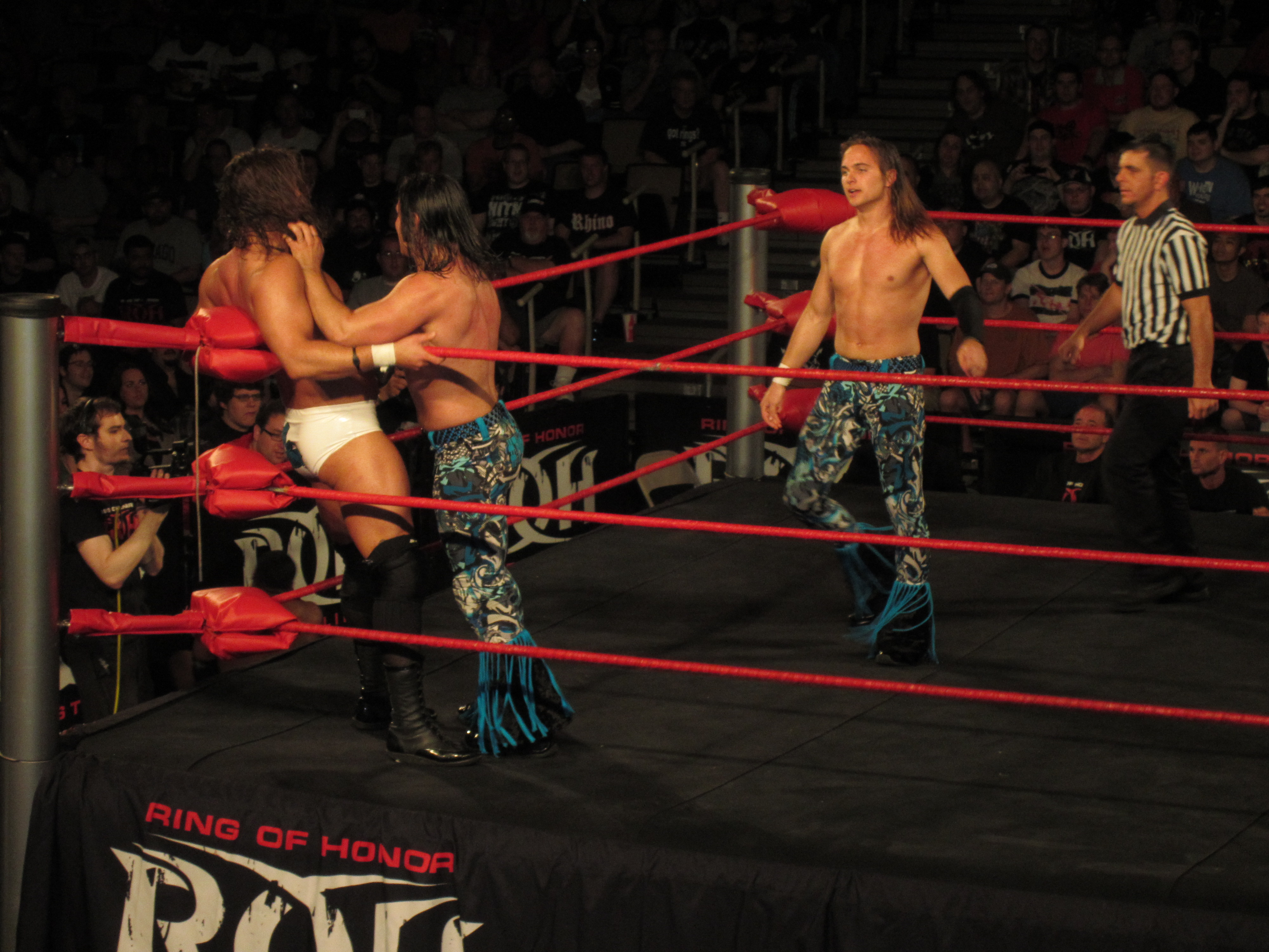 Young Bucks double team